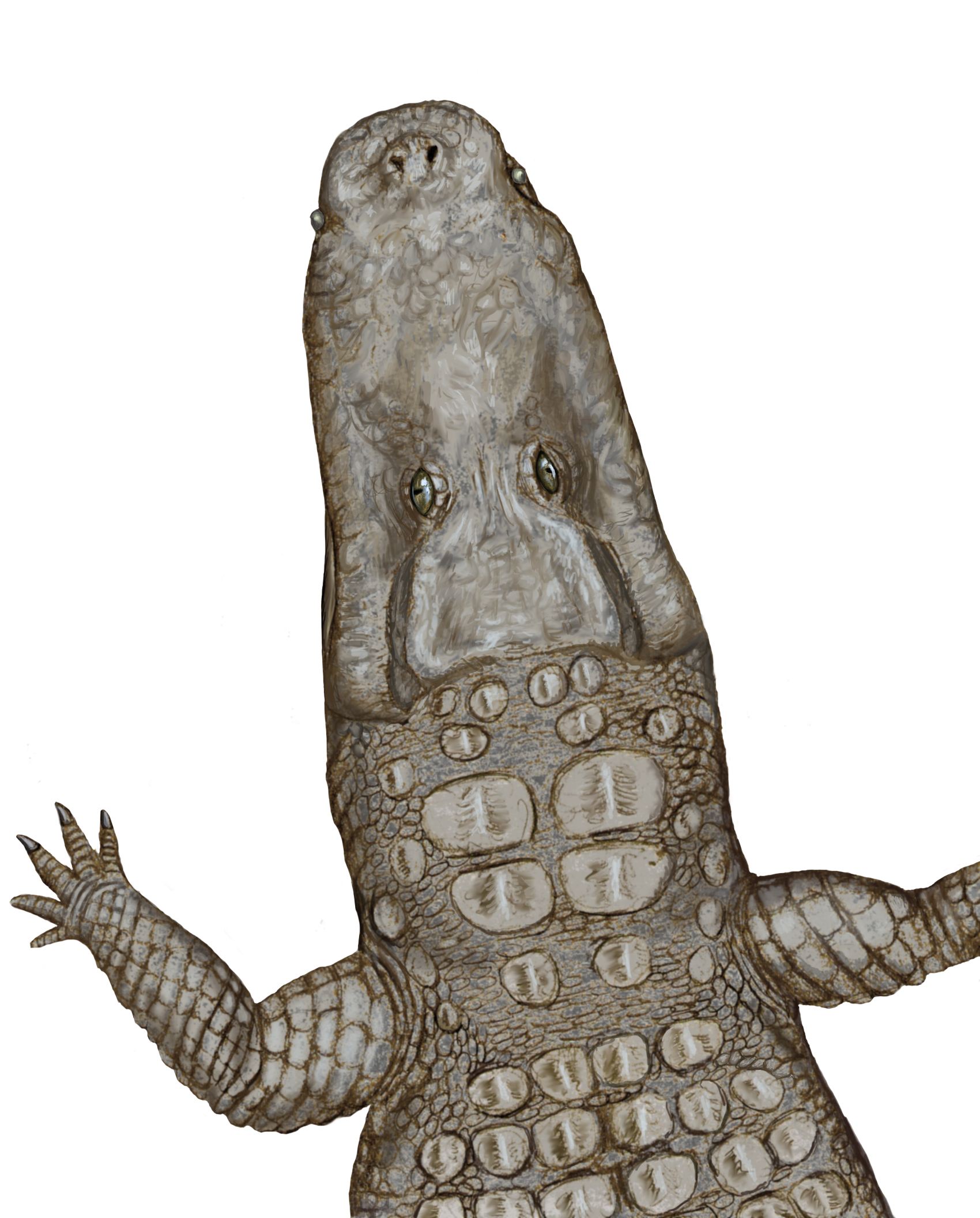 Life restoration of Crocodylus thorbjarnarsoni, based on fossils previously referred to Rimasuchus lloydi. Based on Figure 4.23 of "Late Miocene-early Pliocene crocodilian fauna of Lothagam, Southwest Turkana Basin, Kenya" by Glenn W. Storrs in Lothagam: the Dawn of Humanity in Eastern Africa.